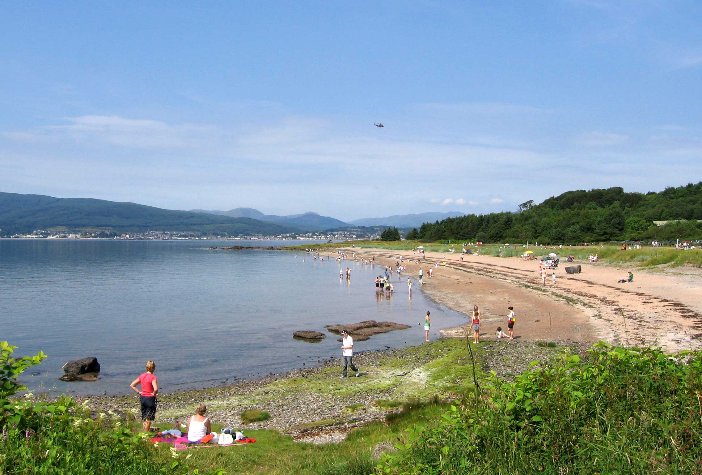 Lunderston Bay on the Firth of Clyde in Inverclyde, Scotland, seen from the Inverclyde Coastal Path.